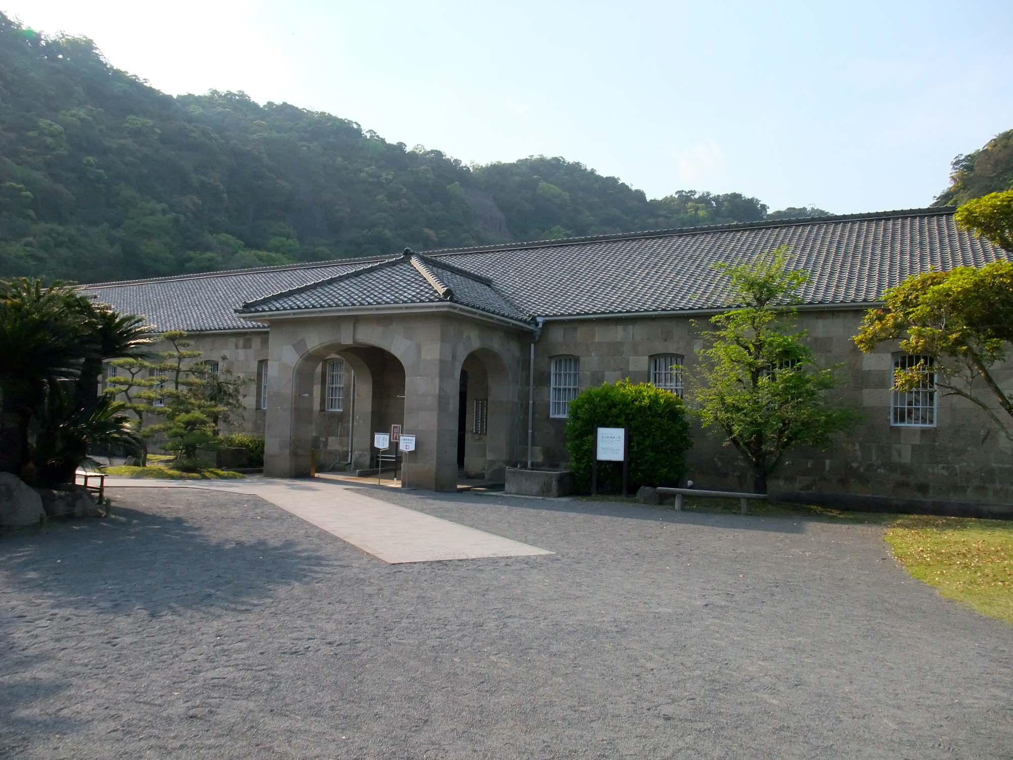 Syoukosyuseikan in Kagoshima